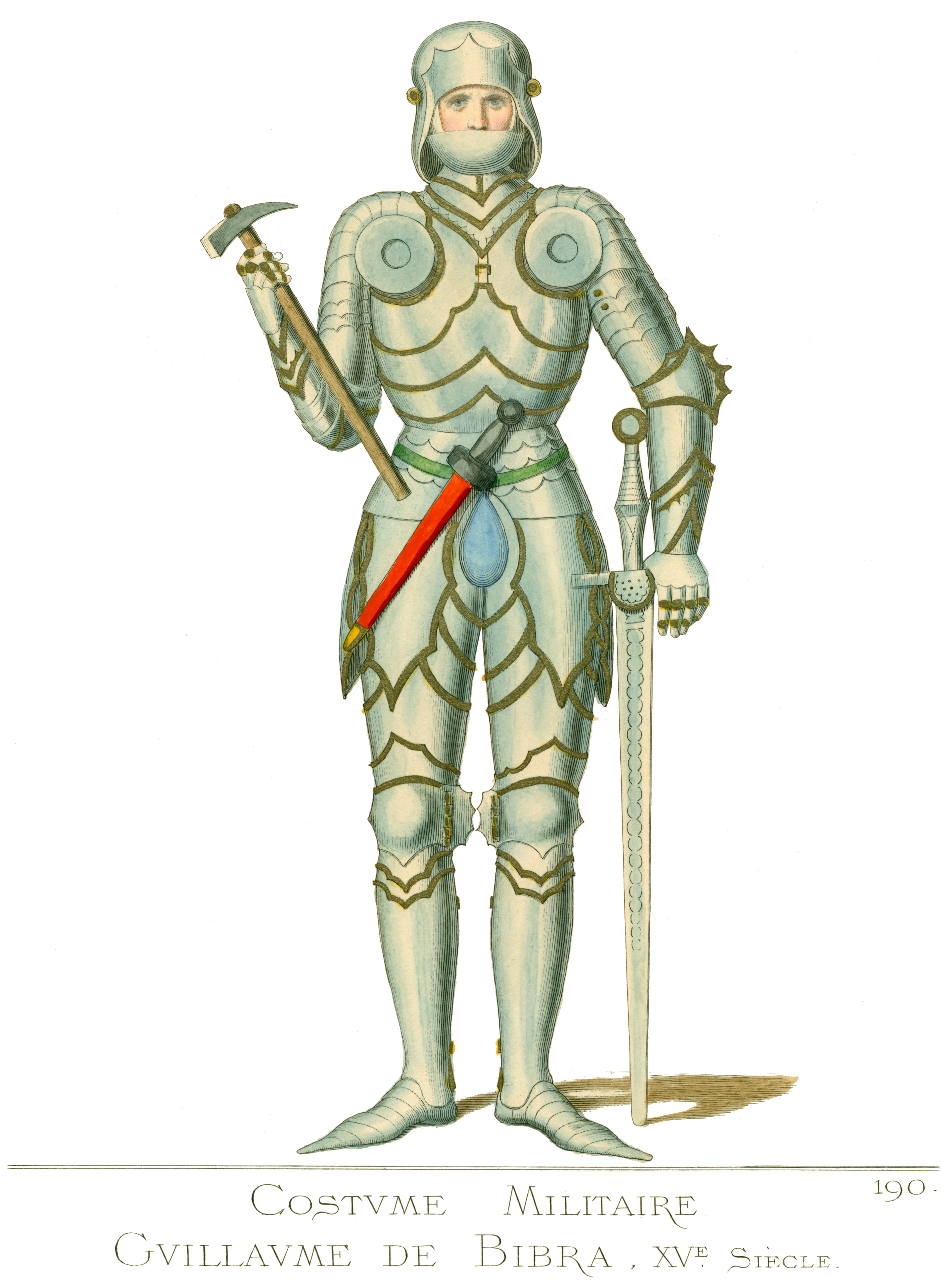 WILHELM VON BIBRA-15TH CENTURY-PLATE 190-Bonnard-Mercuri-1860 From 'Costumes Historiques des XIIe, XIIIe, XIVe, et XVI siecles' by Camille Bonnard published in Paris by A. Levy Fils 1860. Artists and Engravers: In 1827 Camille Bonnard began a monumental gallery of 13th to 15th century European costumes, published in 75 parts over the next two years, with beautiful hand-colored plates by Paul Mercuri. Subject: Plate 190: 'Costume Miltaire, Guillaume de Bibra, XVe Siecle.' (Military Costume, Wilhelm von Bibra, 15th century). Wilhelm von Bibra (1442 - 1490) was a Papal Emissary.